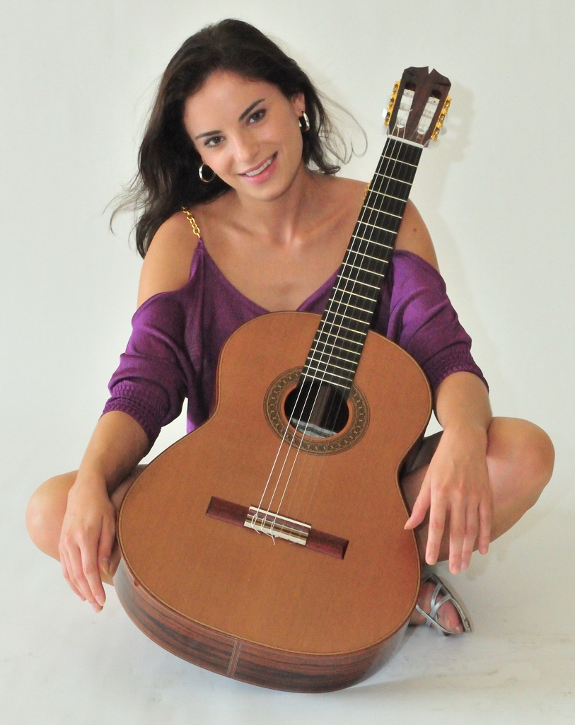 Ana Vidovic with Guitar at Studio